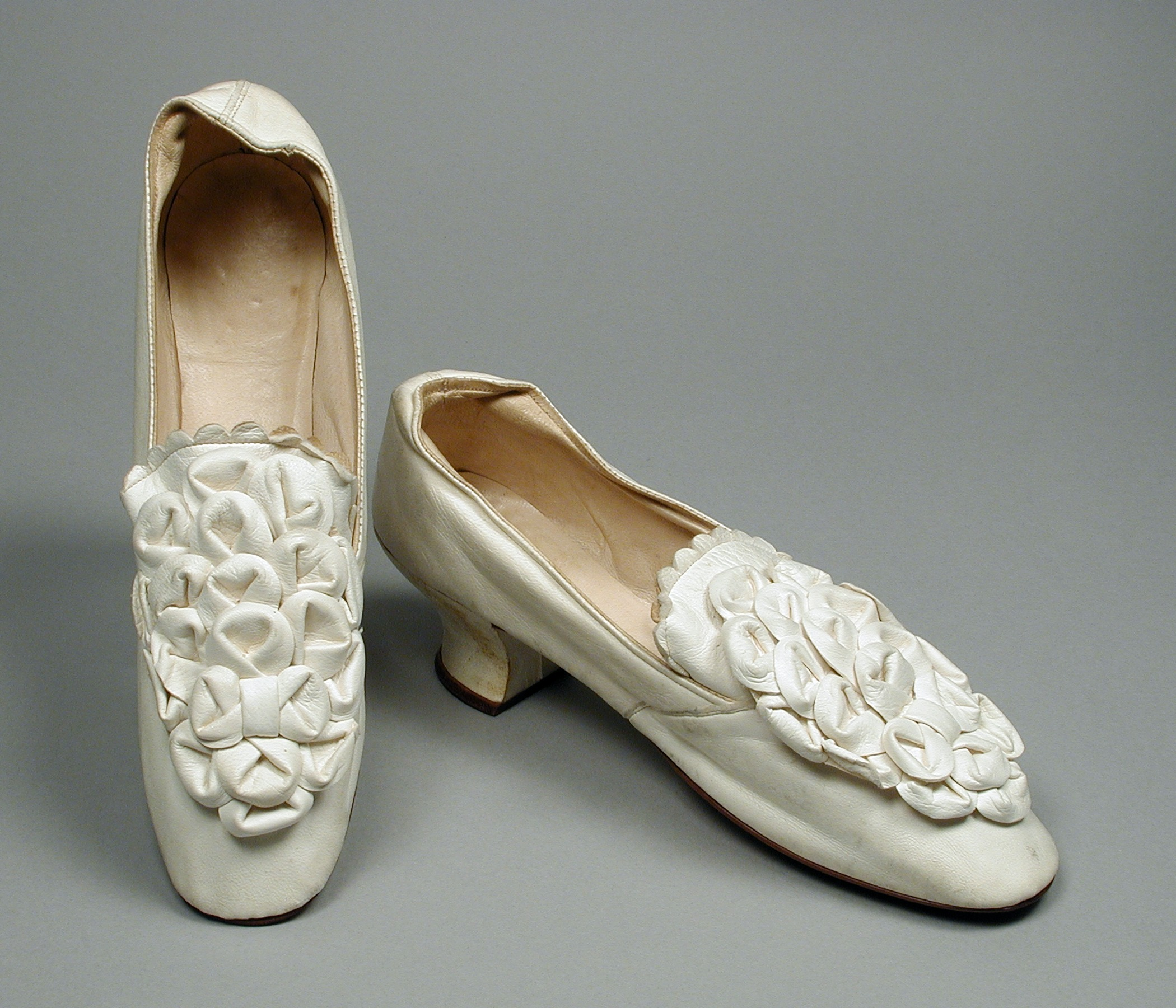 Europe, circa 1885 Costumes; Accessories Leather Gift of Mrs. Margaret Hubbard Taber (M.86.410.2a-b) Costume and Textiles